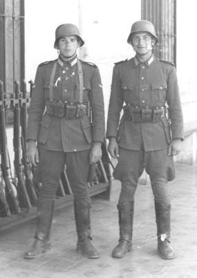 This photo was taken in 1938 in a military barracks in Argentina. The helmets are fiber parade versions in light green with decal on the right side (not visible in the photograph). The helmet is believed to me of Argentinean manufacture. Note the two soldiers wear uniforms and equipment patterned after German standards.